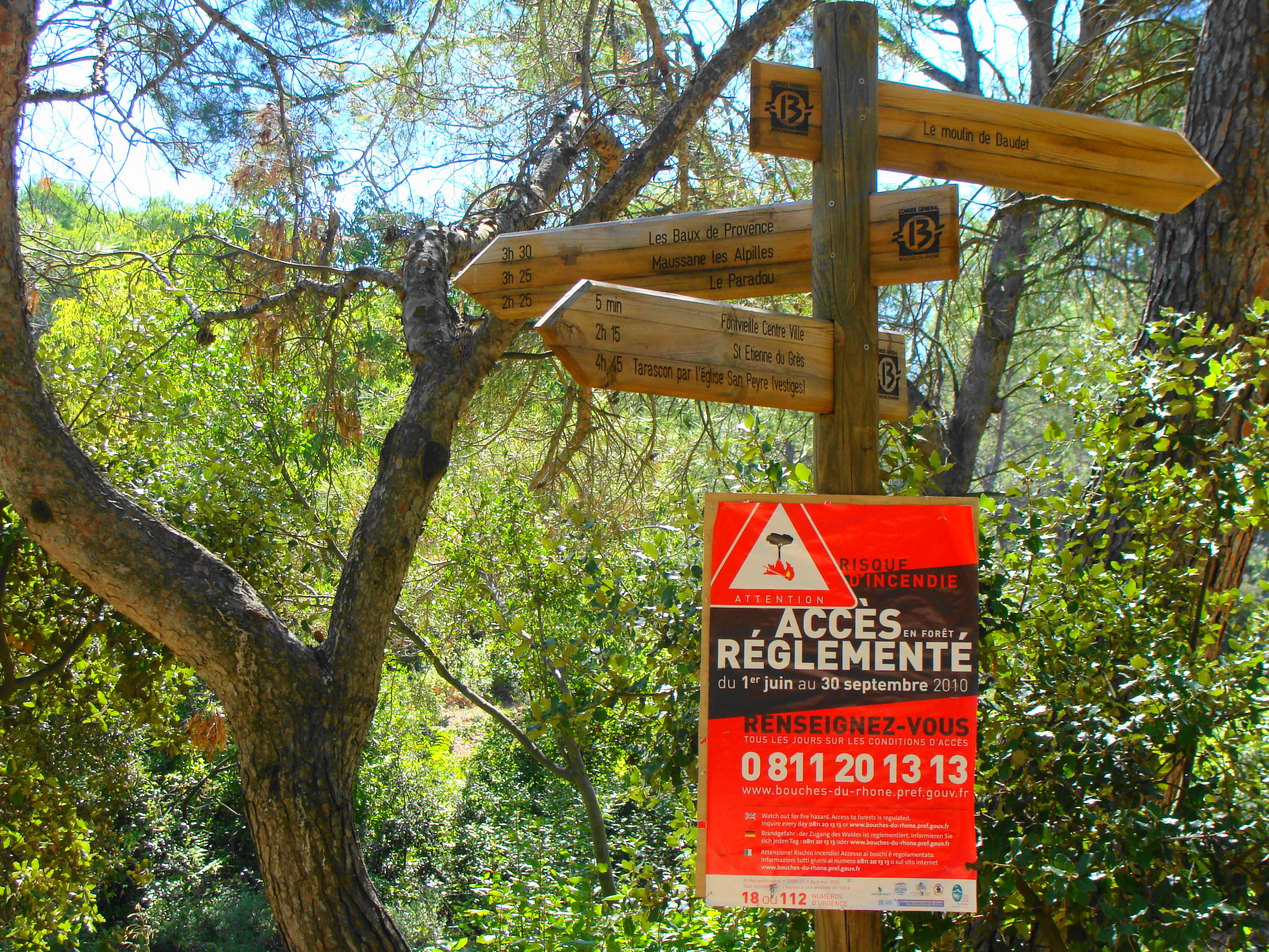 Tourist sign on the way from Fontvieille to Baux-en-Provence